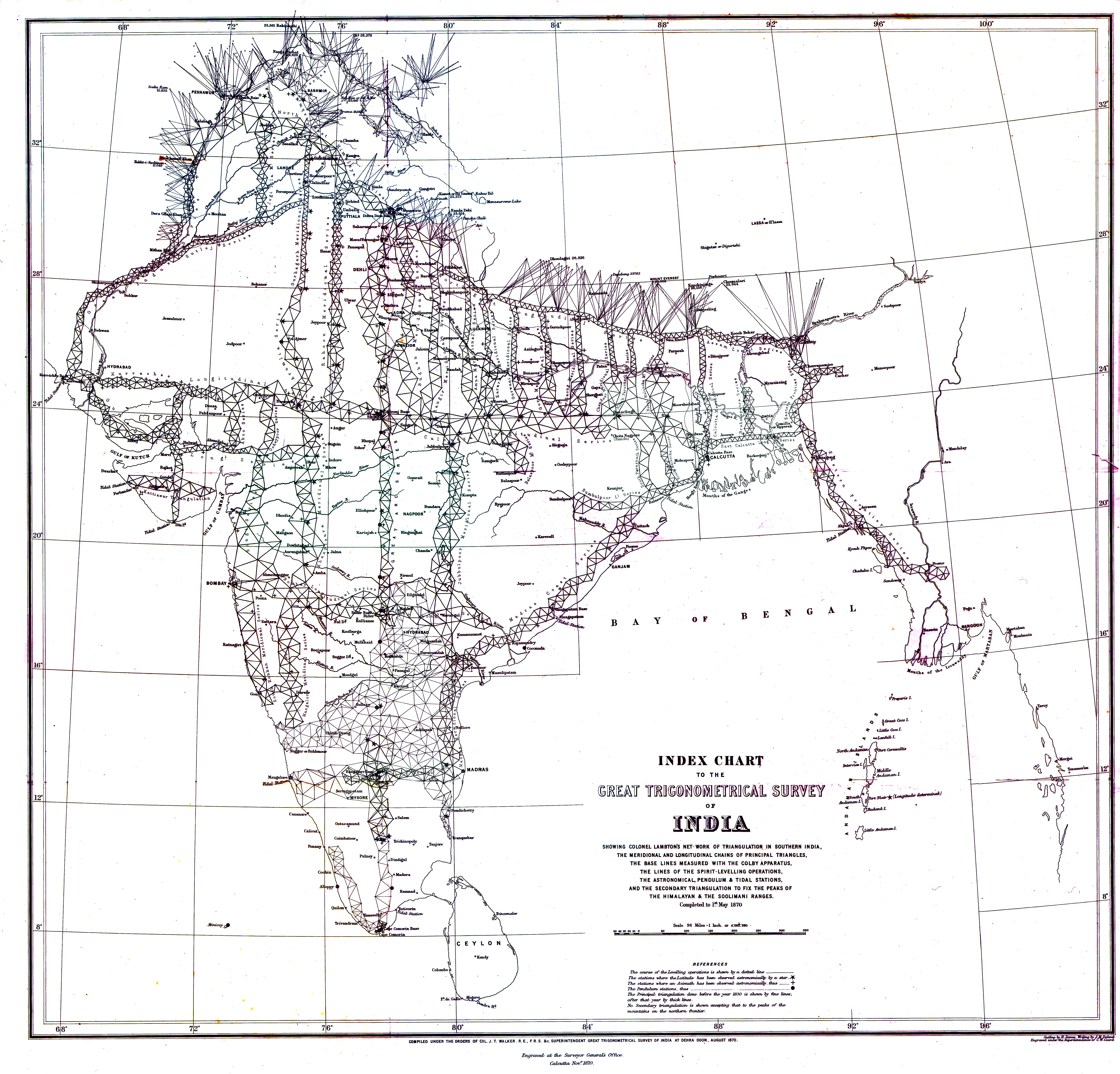 1870 Index Chart of the Great Trigonometric Survey of India